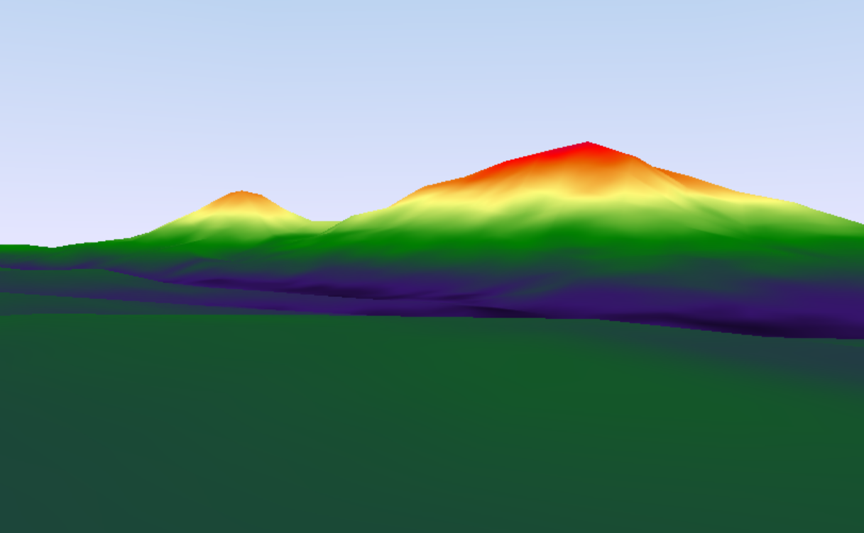 Calculated digital terrain model of Battle Mountain, Virginia based on ASTER satellite data